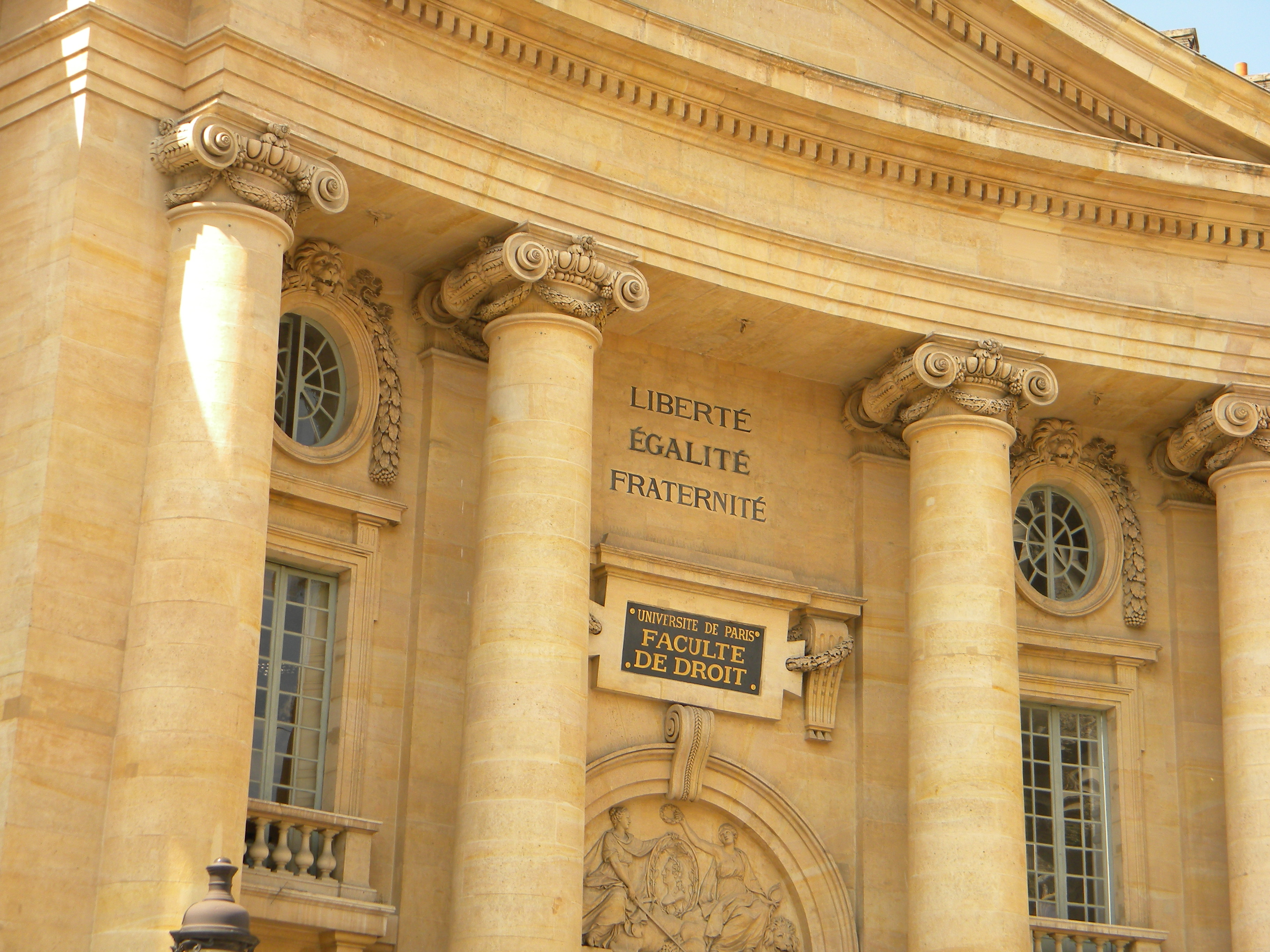 Universite de Paris - Faculte de Droit, Place de Pantheon (detail)